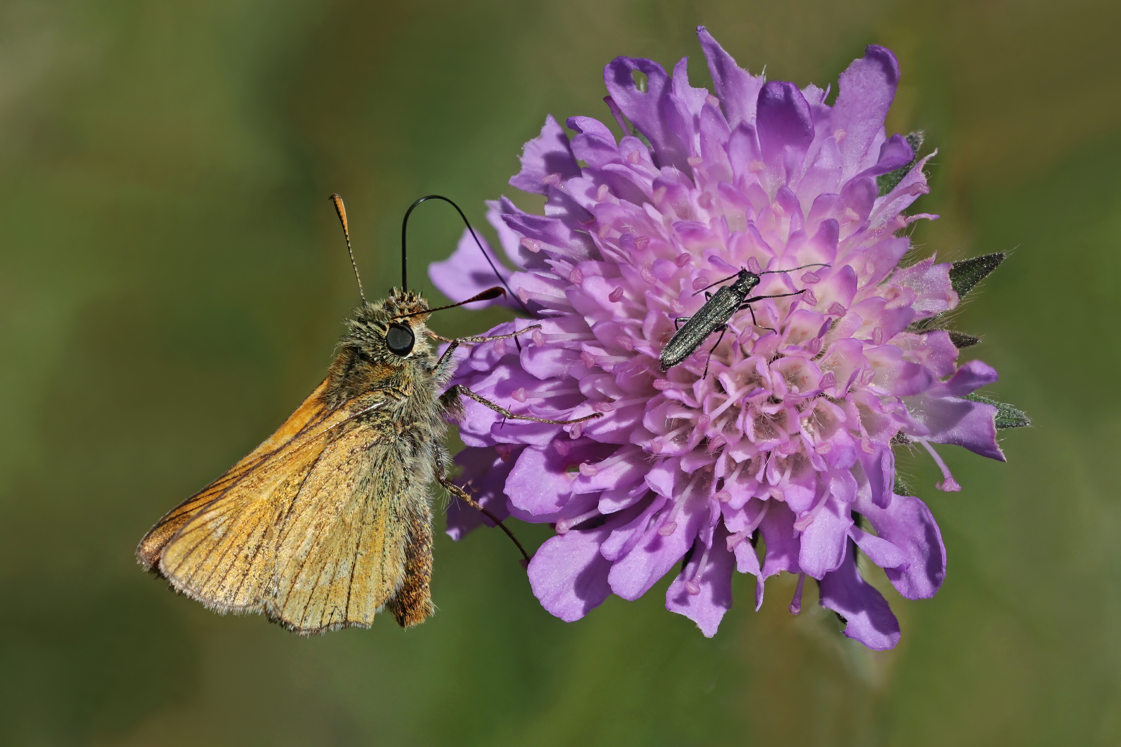 Large skipper (Ochlodes sylvanus) with flower/false blister beetle (Oedemera sp.), Valöns naturreservat, Västra Götaland, Sweden